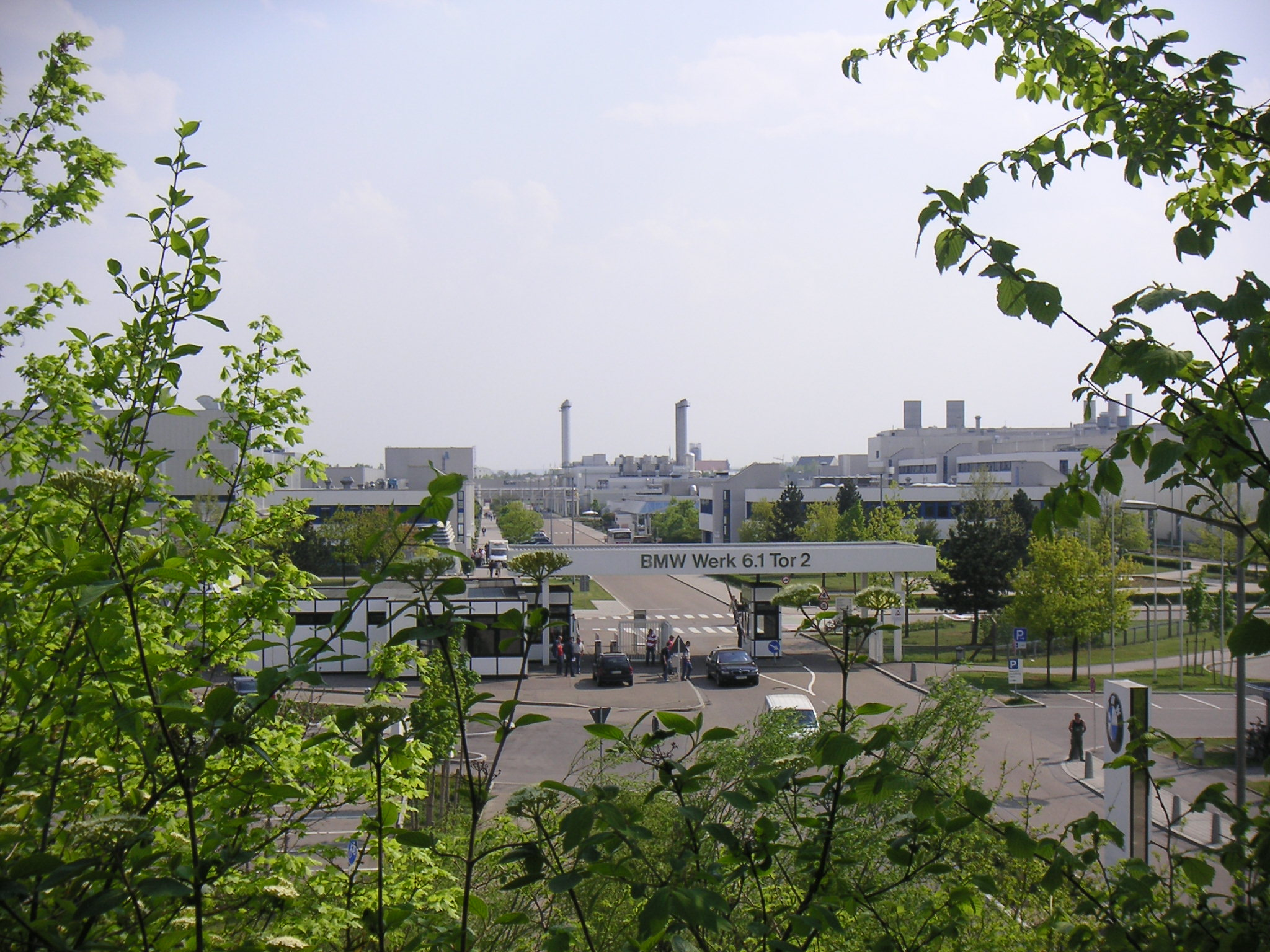 Regensburg, Harting, BMW factory.